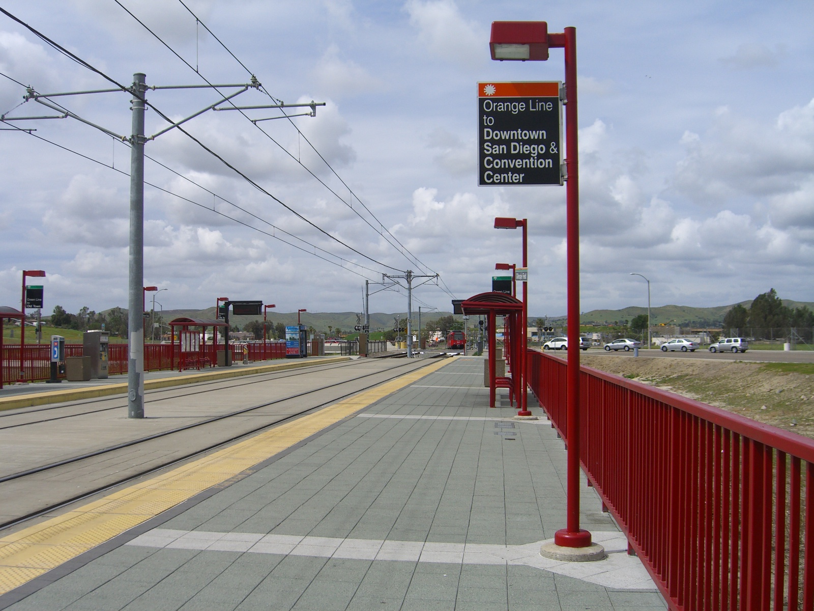 The San Diego Trolley station at Gillespie Field, looking northwest.